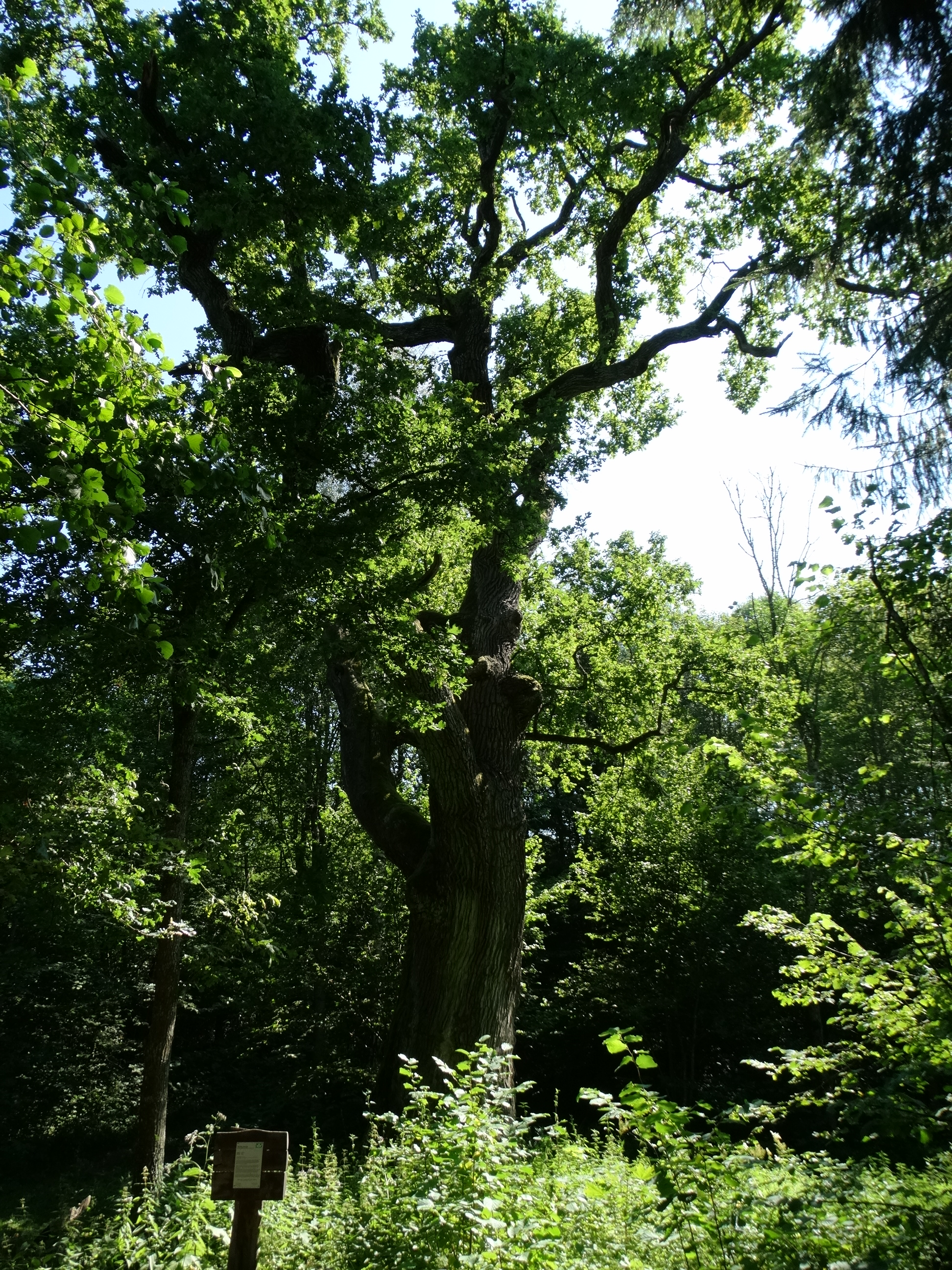 Alkūnai Oak, Molėtai district, Lithuania